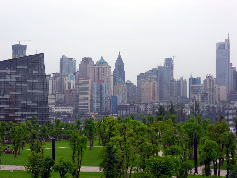 View of Yuzhong, Chongqing